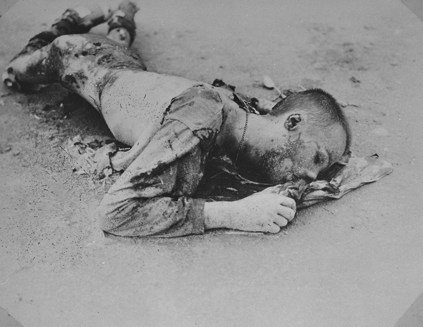 A charred corpse in the Leipzig-Thekla sub-camp of Buchenwald. The body is possibly that of an American POW.